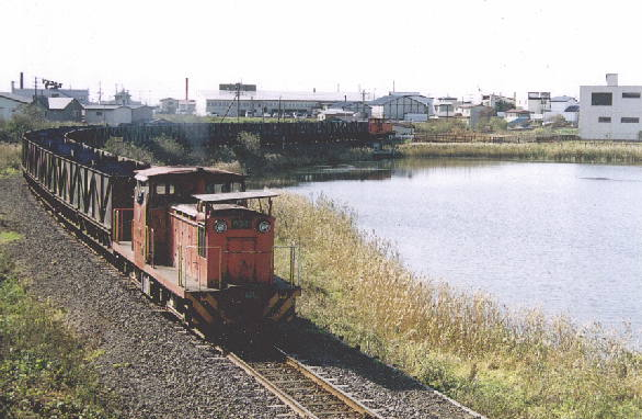 Taiheiyo Coal Services & Transportation Rinko Line train.